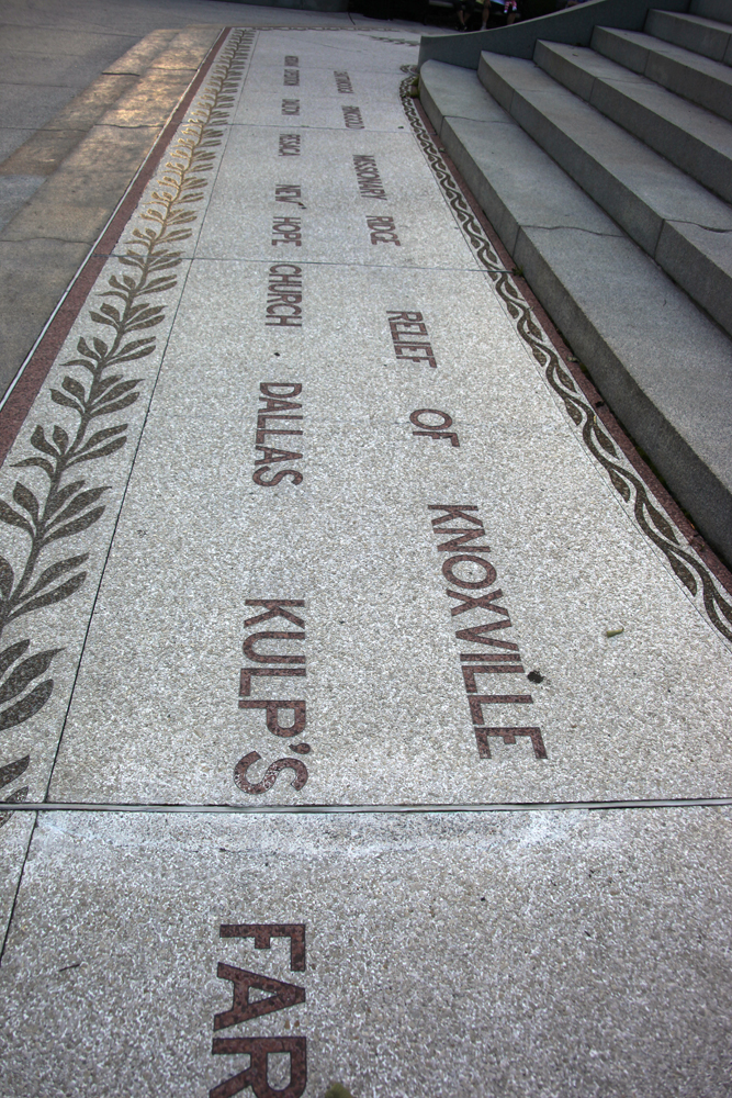 Mosaic listing battles which William Tecumseh Sherman participated in on the south side base of the General William Tecumseh Sherman Monument in Sherman Plaza in Washington, D.C., in the United States. The mosaic was designed by Danish-American sculptor Carl Rohl-Smith between 1896 and 1900, but he died in 1900 before it was finished. His wife, Sara Rohl-Smith, finished the mosaic. The memorial was dedicated in 1903.